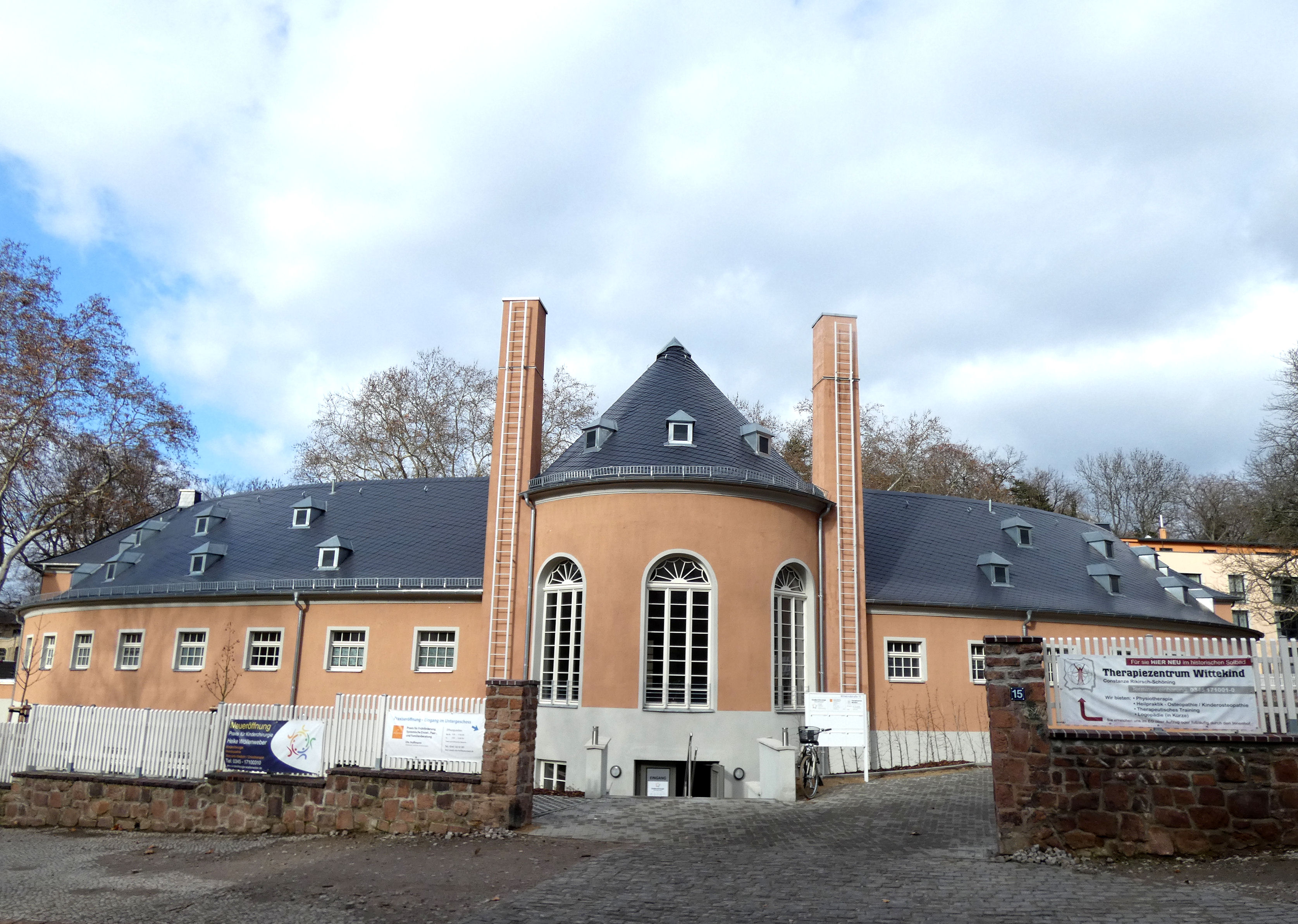 Former Wittekind salt water bath in Halle (Saale)